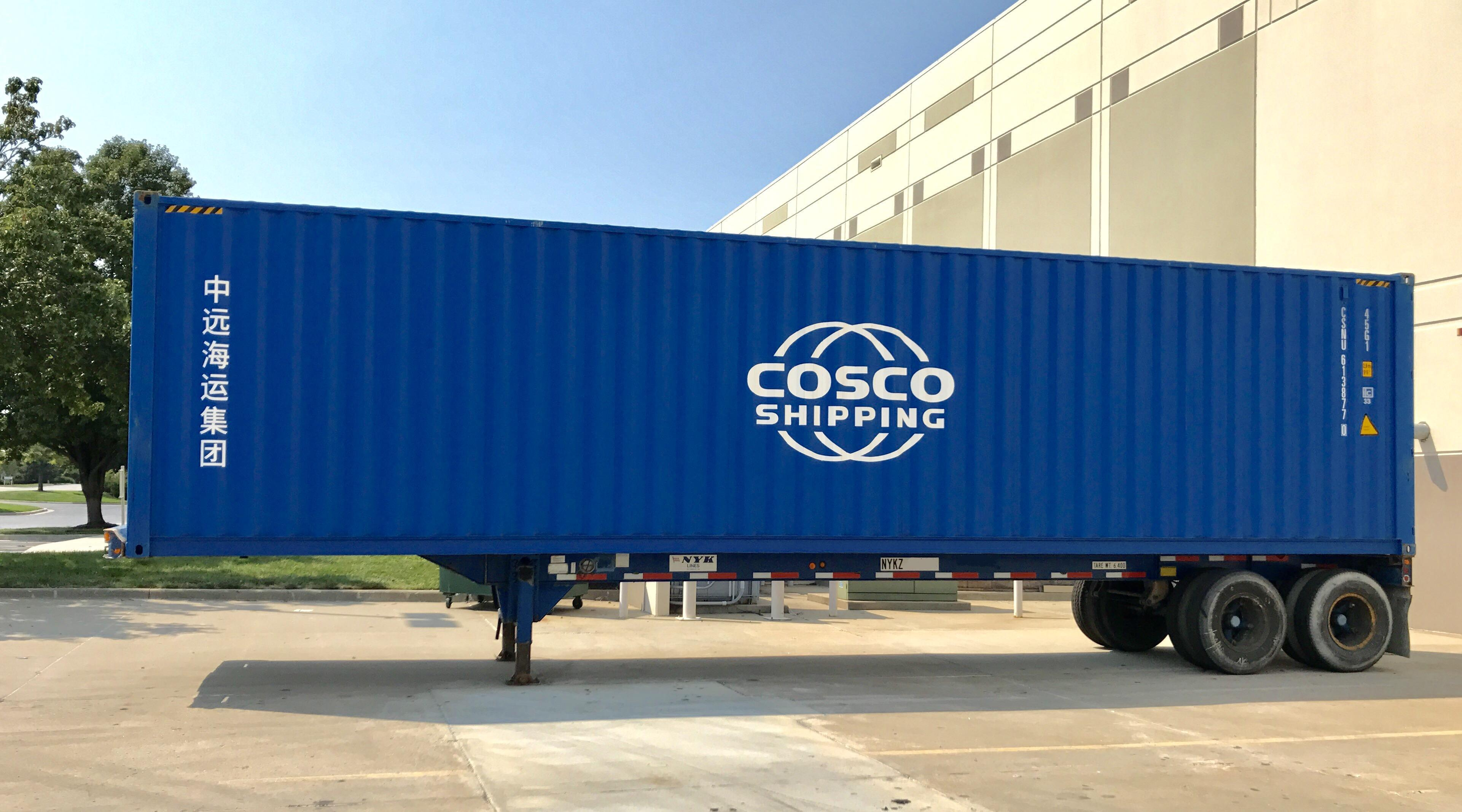 Cosco Shipping container trailer parked at a distribution center in the United States.